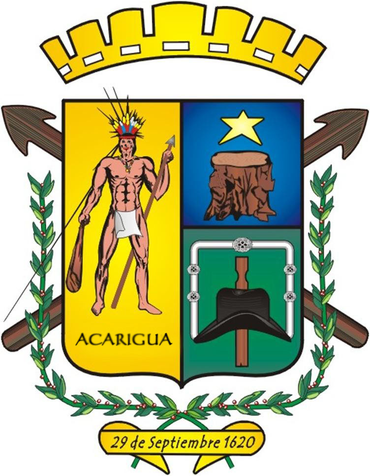 escudo de Acarigua, Estado Portuguesa